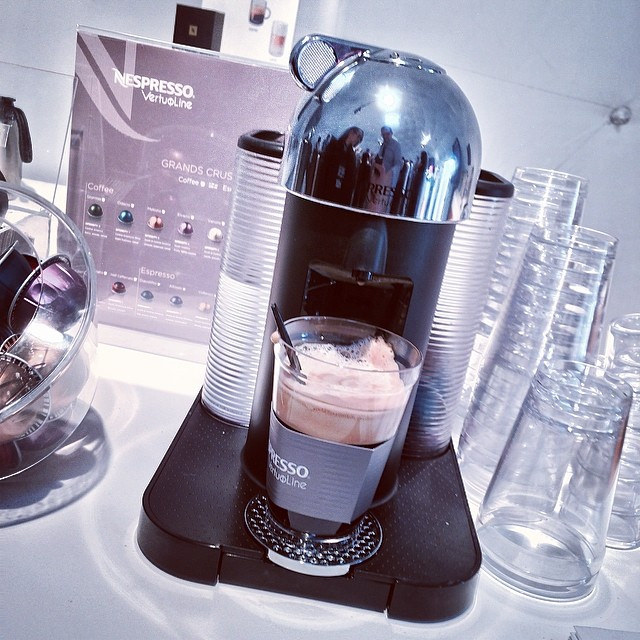 VertuoLine, a new coffee system from Nespresso, introduced in 2014 and available only in Canada and the United States.